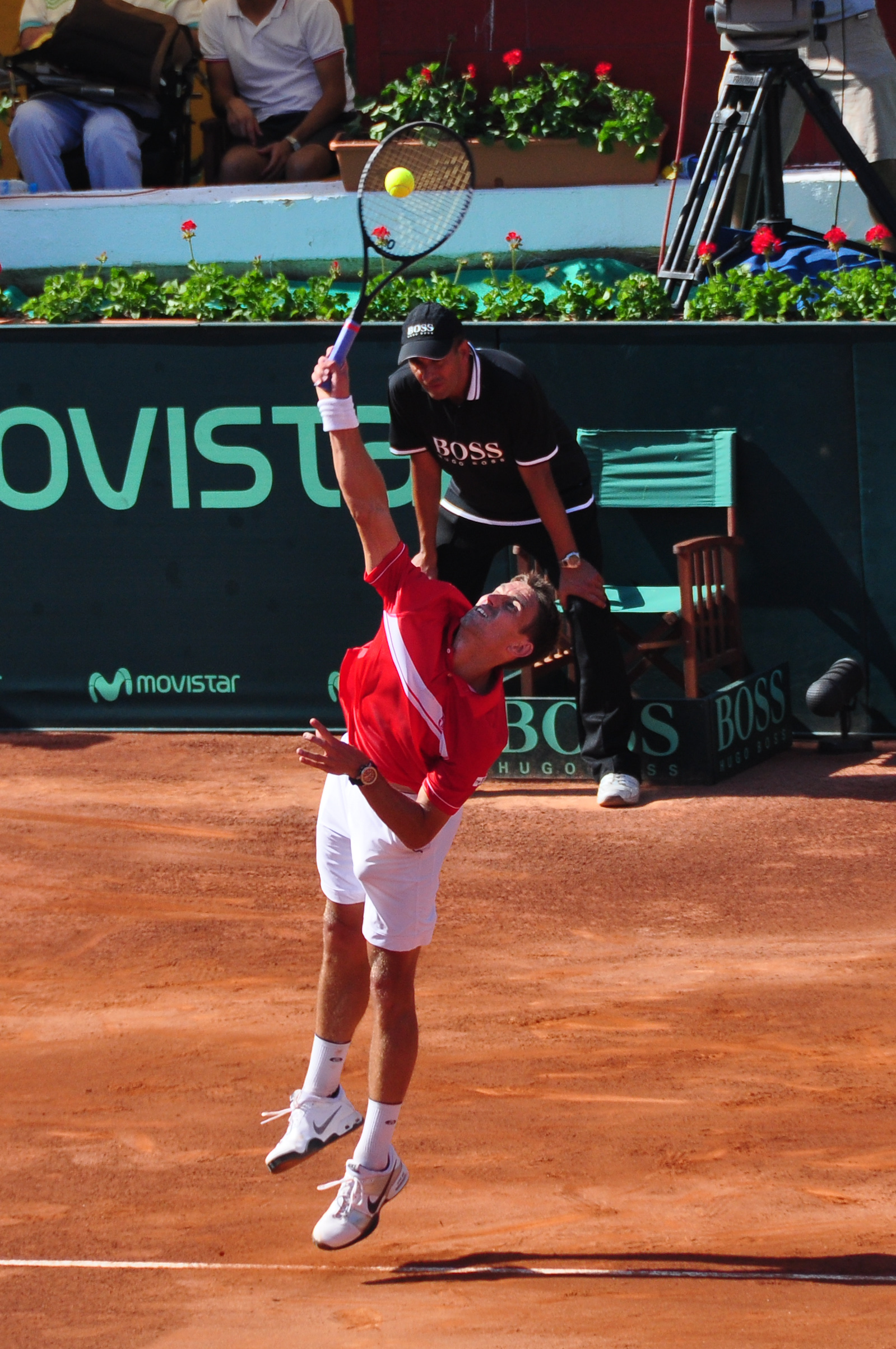 Tommy Robredo against Philipp Kohlschreiber in the 2009 Davis Cup semifinals (Spain vs. Germany)